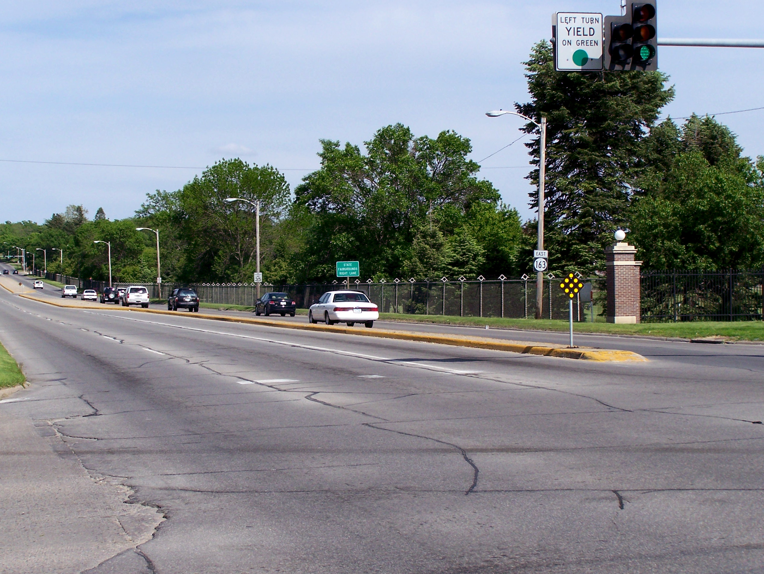 Iowa Highway 163 at the northwestern corner of the Iowa State Fairgrounds.